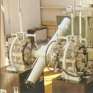 The 6-inch Transit Circle at USNO was built in 1898 by Warner & Swasey, and was used continuously from then until 1995. It is a highly specialized instrument, rigidly mounted so that it can only look along a line passing from north to south through the zenith (the point directly overhead). A star's position is measured as it crosses, or "transits", a set of crosshairs mounted at the telescope's focal plane. The time of the star's transit, measured against a celestial reference frame, gives its "Right Ascension" or celestial longitude. The star's altitude is measured directly at the telescope, where two circles, each divided into 7200 sectors, are read by the observer. The star's altitude can then be converted directly into its "Declination", or celestial latitude. Transit Circles could determine stellar positions to accuracies approaching 0.05 arcseconds.